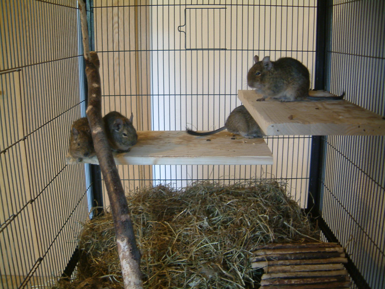 Four Degus in a cage. From left to right posing for Wikimedia Commons: Elmo, Rudi, Nicki and Gizzy. (Nicki is offended because he wasn't allowed to leave the cage - so he is hiding to ruin the picture). Photographed by: Tim 'Avatar' Bartel dual licensed